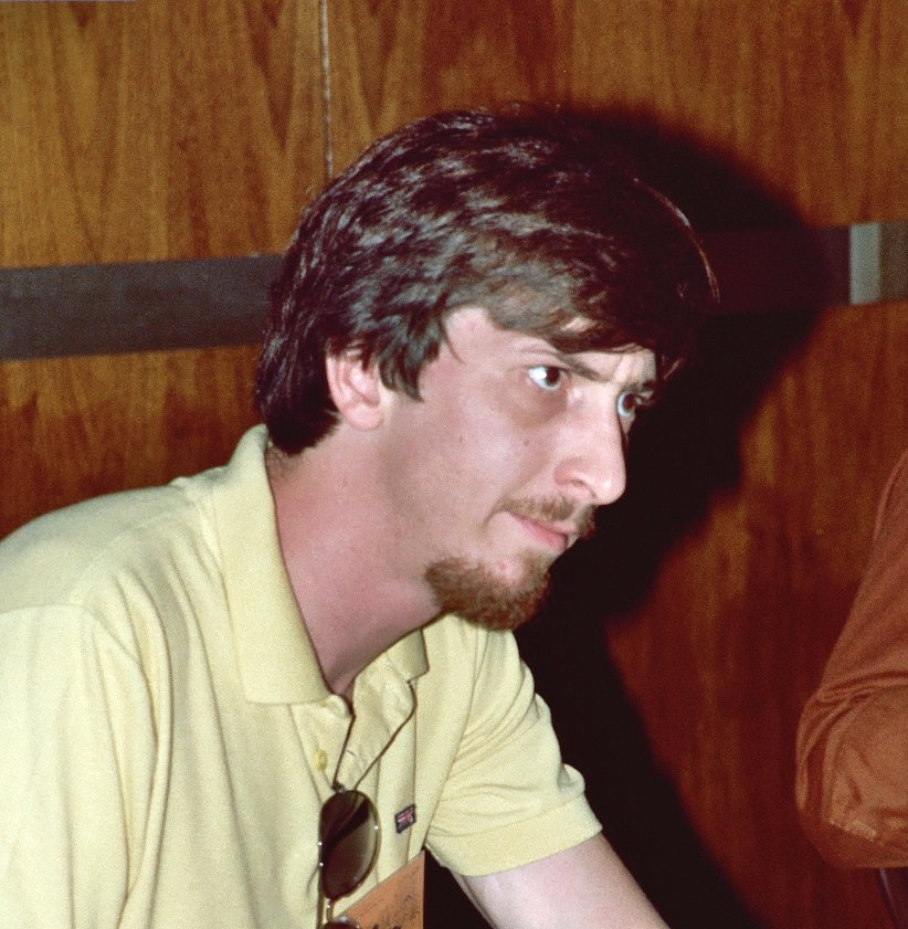 Photo of Frank Miller at 1982 San Diego Comic Con depicted person: Frank Miller (age: 25)